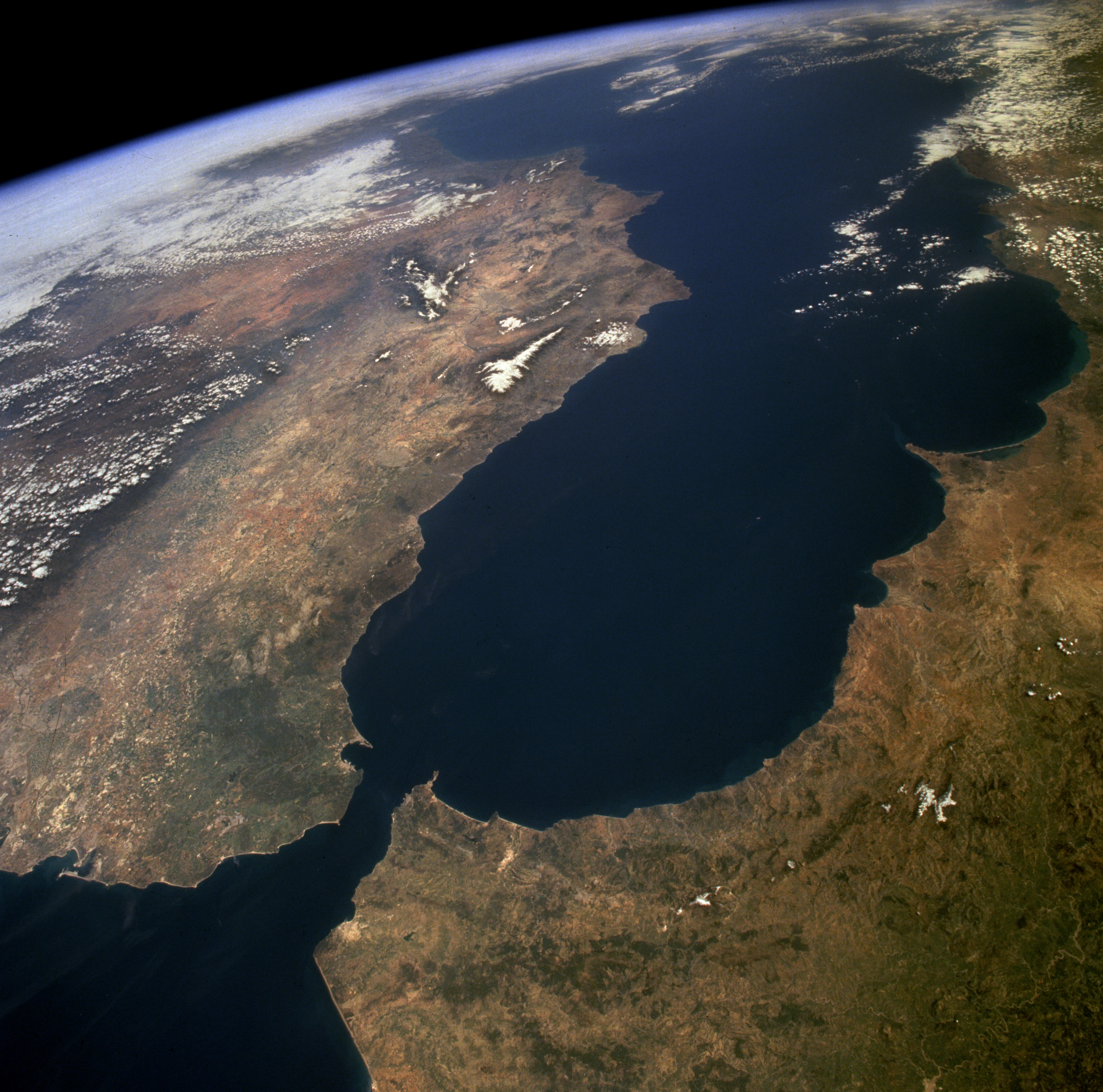 The Strait of Gibraltar provides a natural physical barrier between the countries of Spain (north) and Morocco (south). In geologic terms, the 10-mile (16-kilometer) strait that separates the two countries, as well as Europe and Africa, is located where the two major tectonic plates—the Eurasian Plate and the African Plate—collide. This high-oblique, northeast-looking photograph shows the mountainous northern coast of Morocco and the coastal mountains of southern Spain, including the dagger-shaped, snow-covered Sierra Nevada Mountains of southeastern Spain. The Guadalquivir River flows from east to west along the base of the Sierra Morena Mountains in southern Spain. The famous British city of Gibraltar is located on the wedge-shaped peninsula on the east side of the bay in the southernmost protrusion of Spain. The city of Ceuta is a Spanish enclave on the extreme northeastern coast of Morocco. Ceuta, a free port with a large harbor, has remained under Spanish control since 1580.